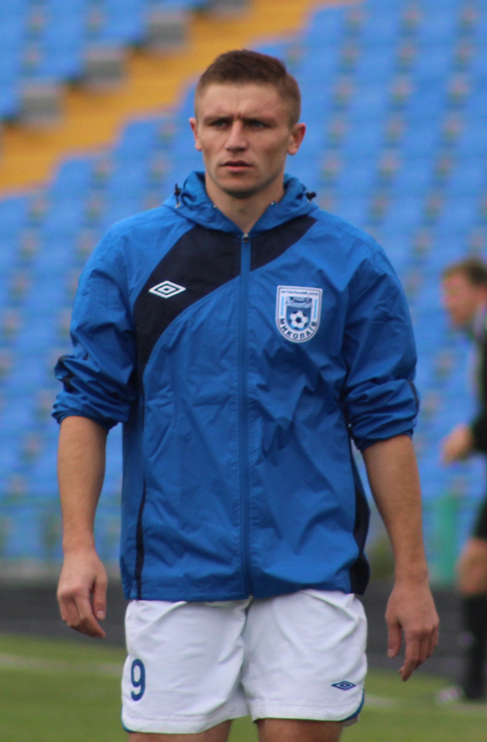 Mykhaylo Sergiichuk